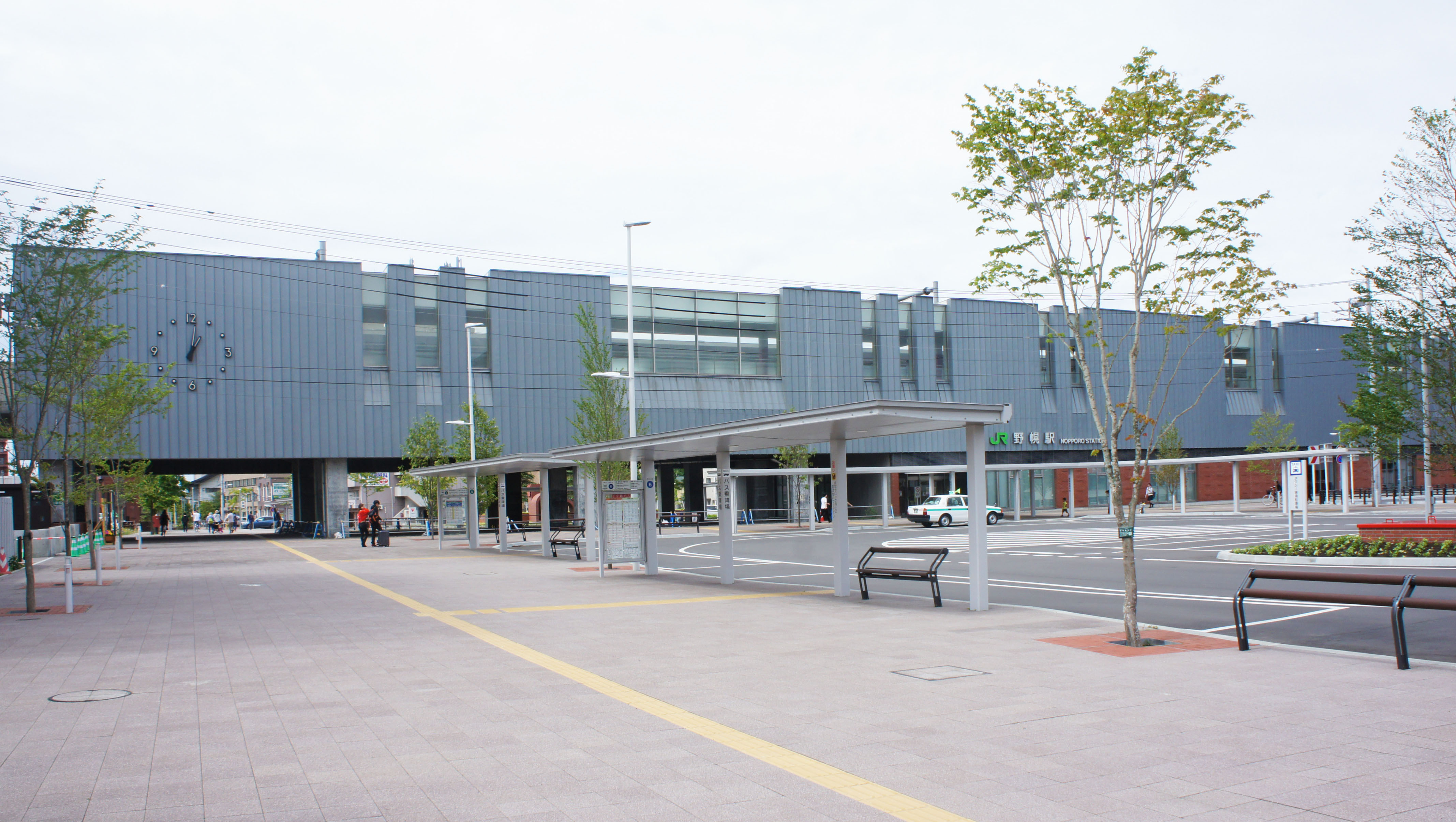 South Exit of JR Hakodate-Main-Line Nopporo Station